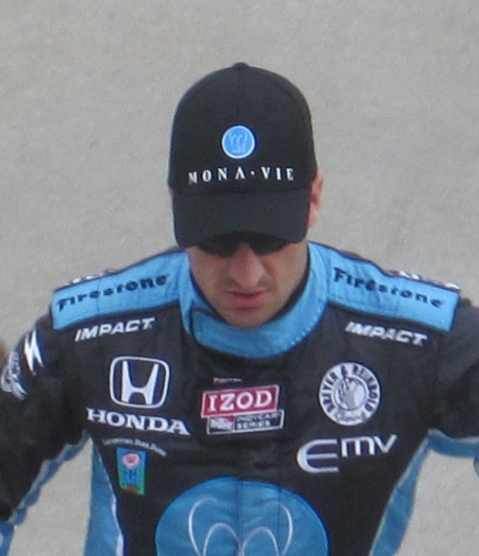 Dreyer & Reinbold Racing's Tomas Scheckter at the Indianapolis Motor Speedway for day 1 of practice for the 2010 Indianapolis 500 on Saturday, May 15, 2010.